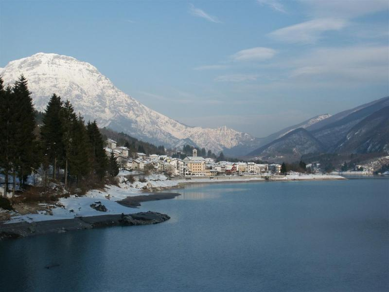 View of Barcis, Italy